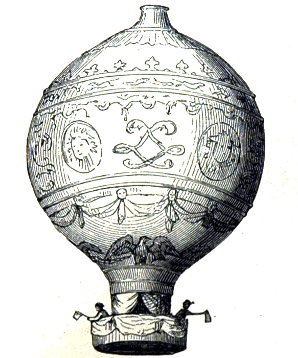 Montgolfier brother's balloon